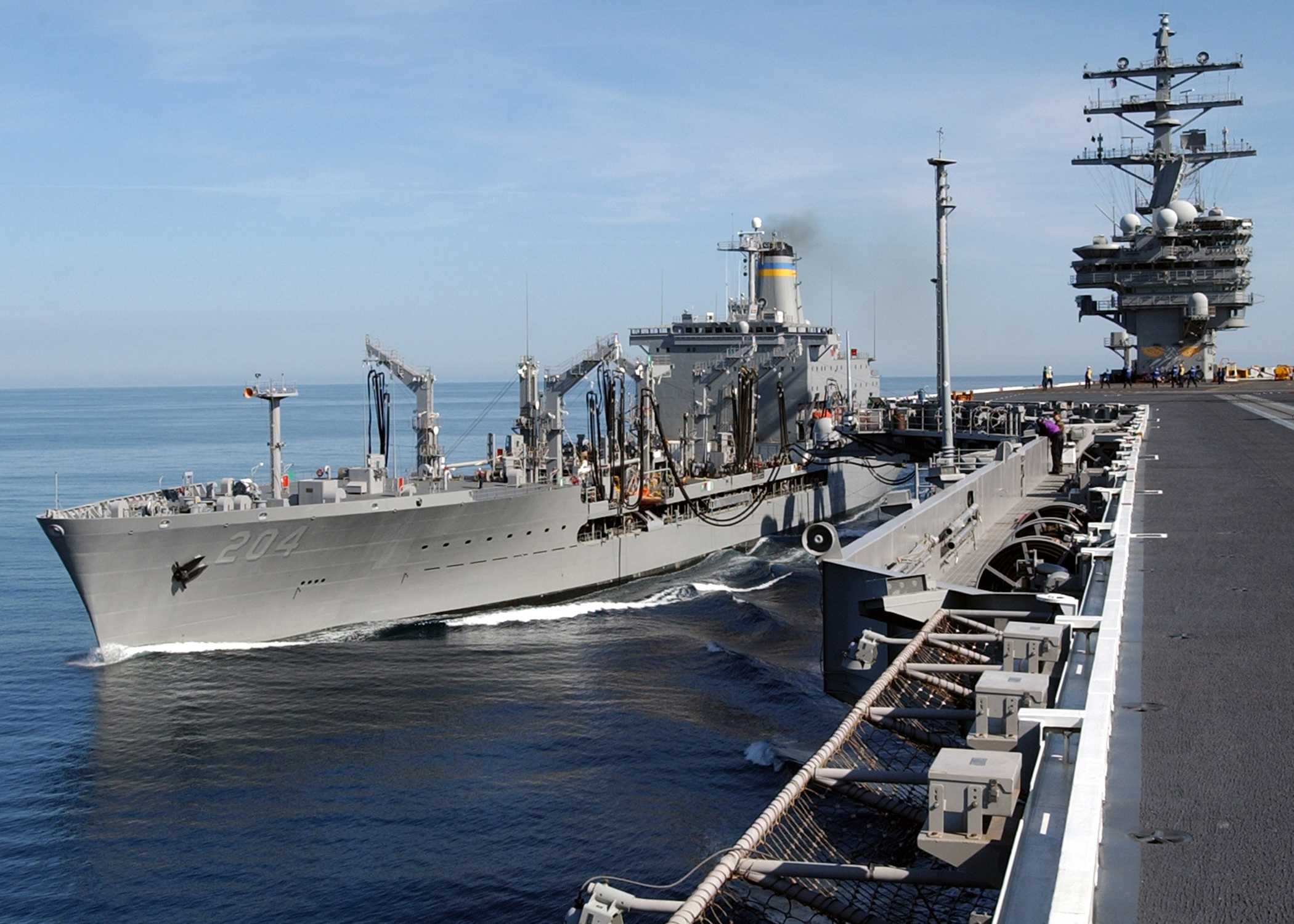 Pacific Ocean (Nov. 16, 2004) — The Military Sealift Command (MSC) oiler USNS Rappahannock (T-AO-204) and Nimitz-class aircraft carrier USS Ronald Reagan (CVN-76) transfer fuel during a replenishment at sea in the Pacific Ocean.